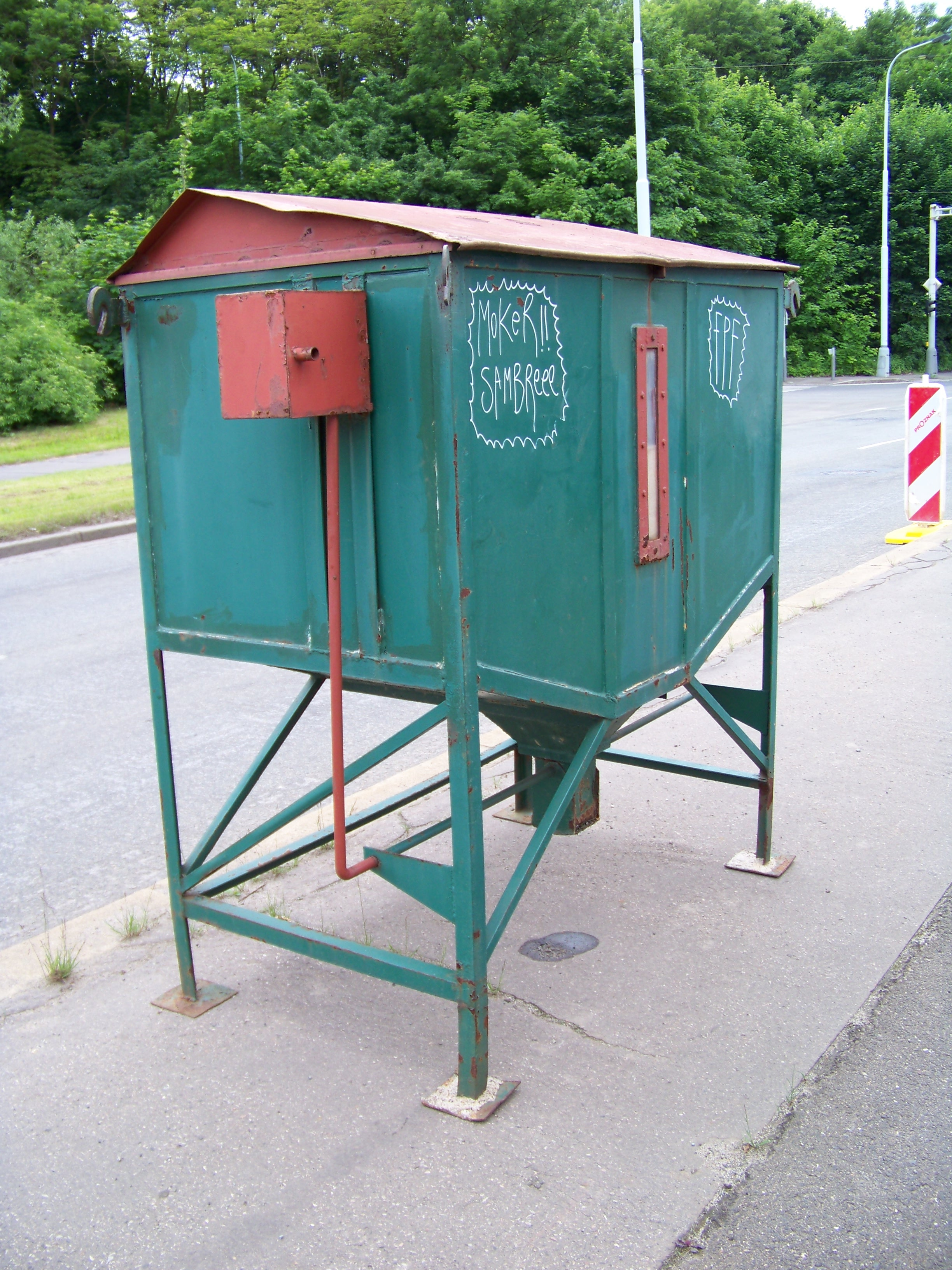 Motol, Prague, the Czech Republic. Temporary tram turning place. A sandbox.